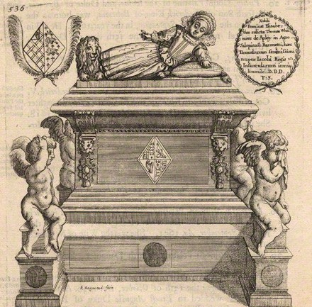 Tomb of Princess Mary (1605-1607), daughter of James VI and I by Anne of Denmark. National Portrait Gallery, London